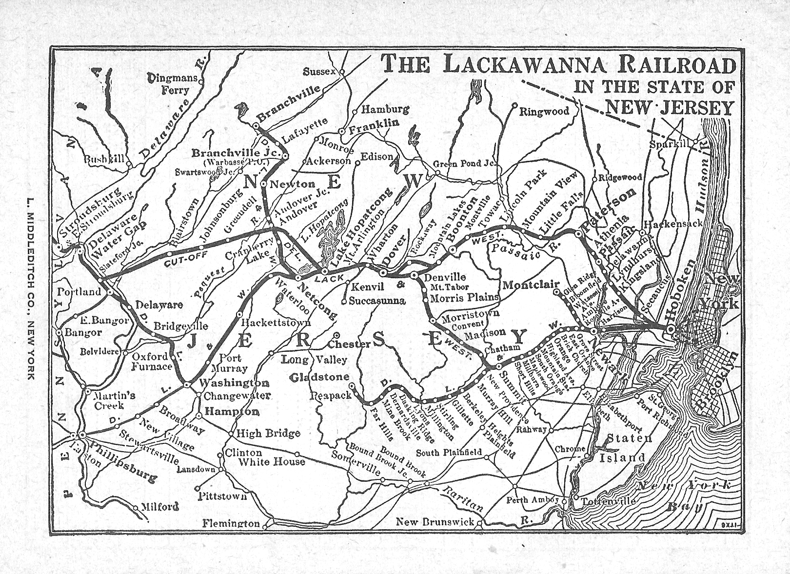 State of New Jersey system map for the Delaware Lackwanna & Western Railroad from the back of suburban timetable and rate of fares for steam and electric trais (Form 10A), eff. 1945-10-28. Map shows area corresponding to today's NJ Transit Morris & Essex Lines, Gladstone Branch, and Boonton Line.